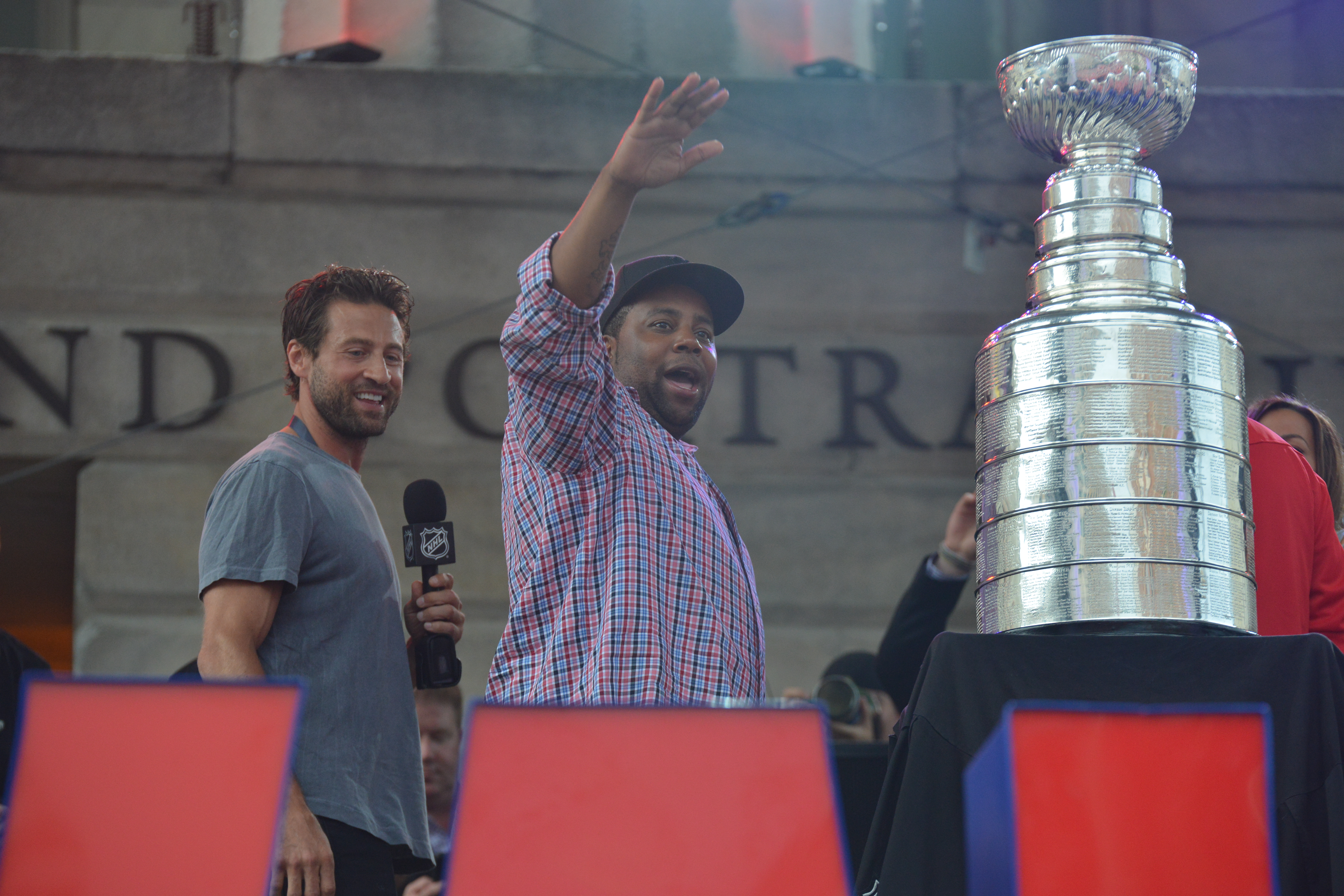 Capitals All Caps playoff Concert 2018